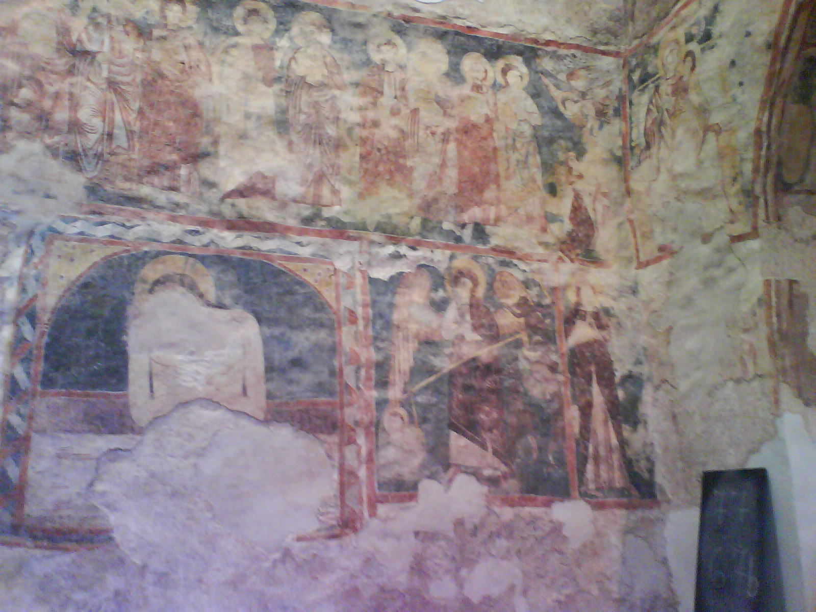 The murals on the northern wall of the church of Cserkút, Hungary (13th-15th century.)